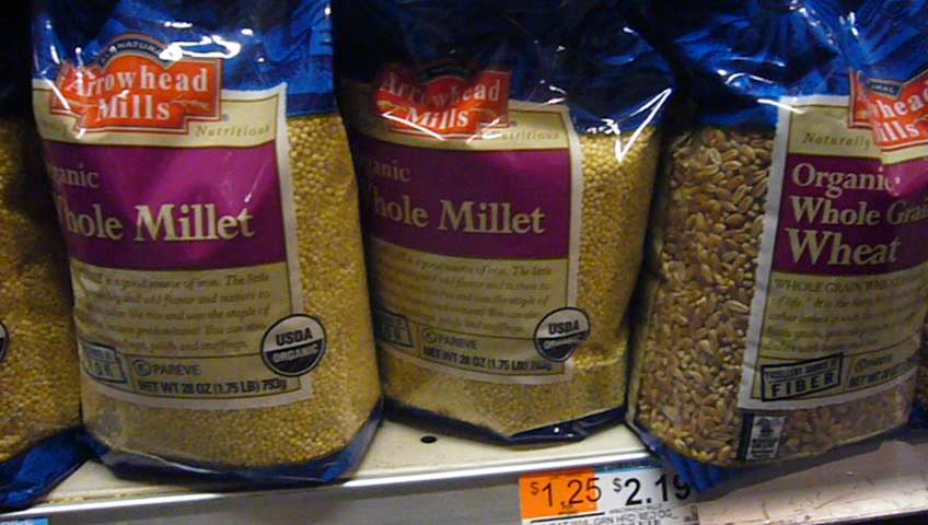 Whole grain wheat